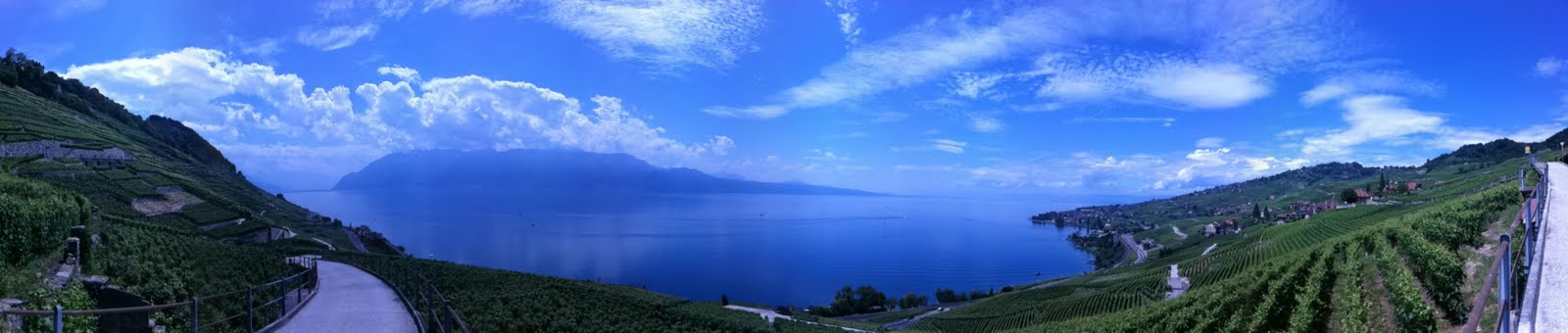 Panoramic view of the village of Epesses, with lake Geneva.